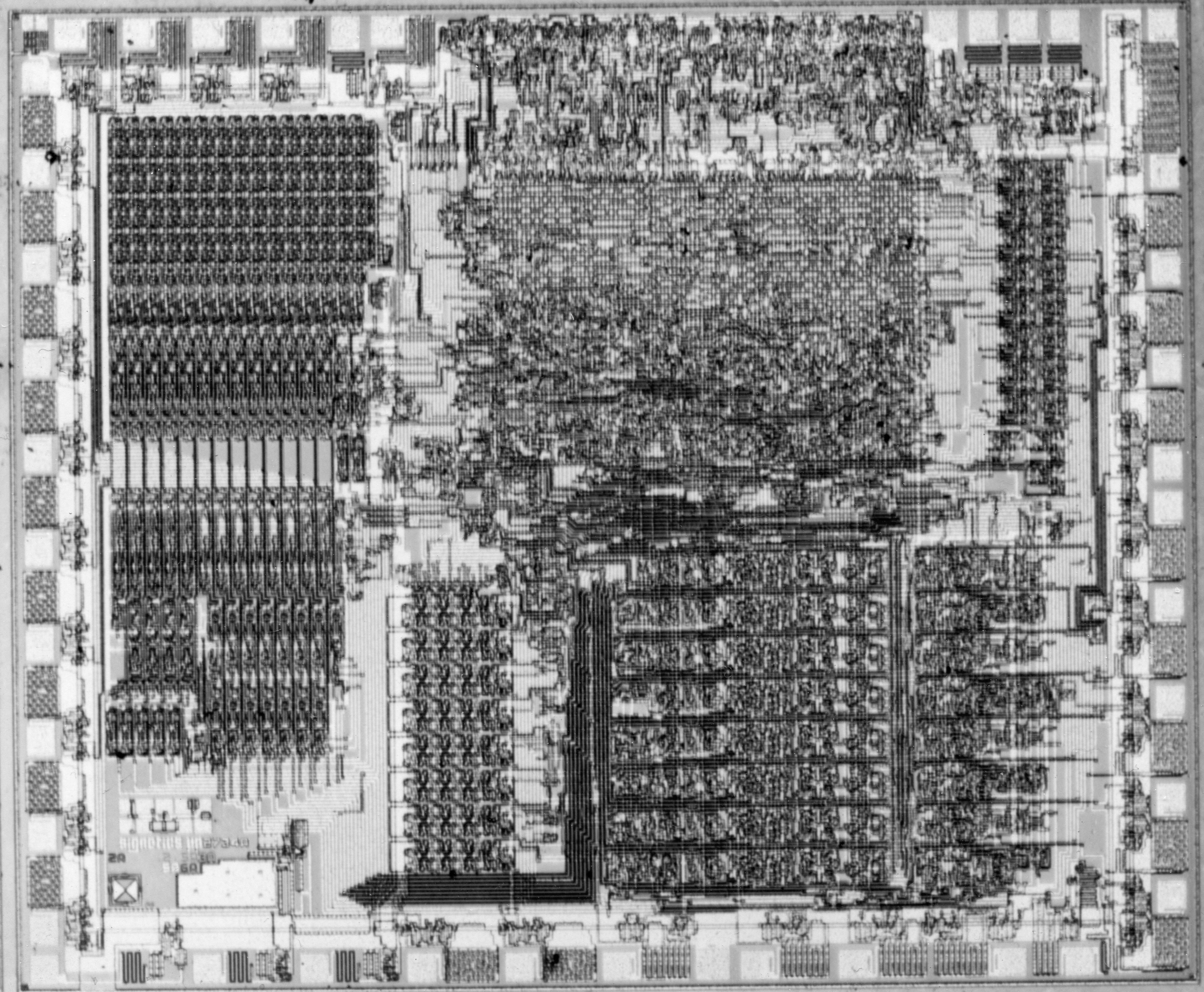 Signetics 2650 chip magnified